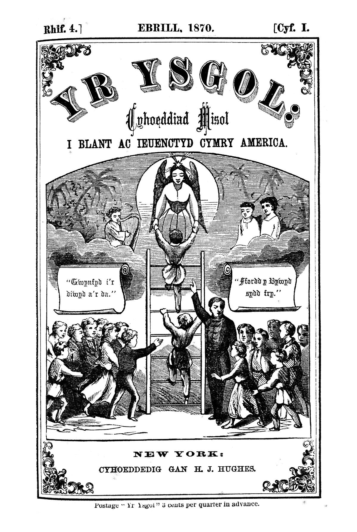 A Welsh language religious periodical intended for the children of Welsh-American Sunday schools. The periodical's main contents were religious articles. Originally a monthly publication it was published bimonthly from April 1870 onwards. The periodical's editor was the musician and author, Hugh John Hughes (ca.1828-1872). Associated titles: Blodau yr Oes a'r Ysgol (1872).